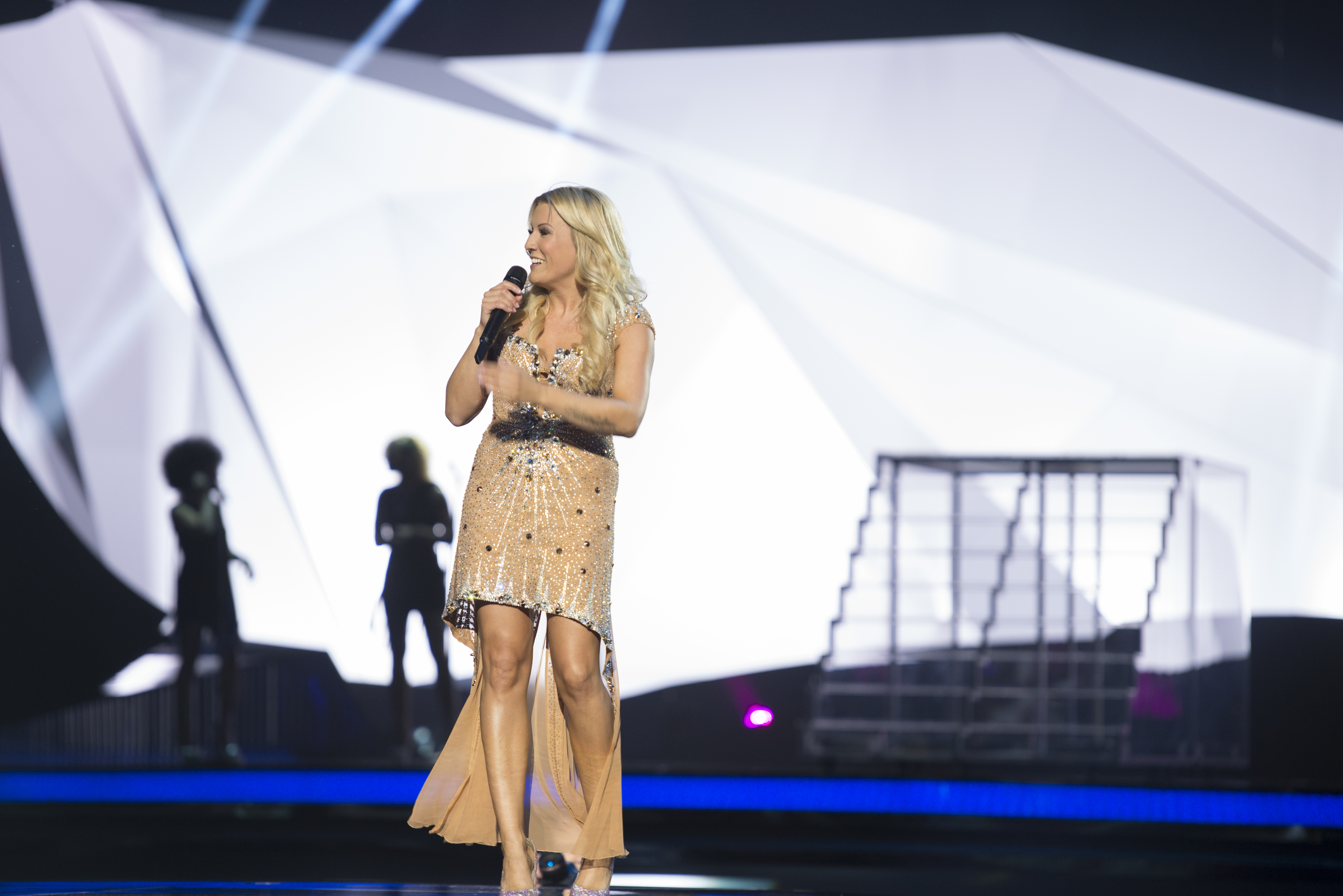 Natalie Horler from Cascada representing Germany with the song "Glorious" during the first dress rehearsal for "the Big Five" in the Eurovision Song Contest 2013 in Malmö. (Help translate this text)